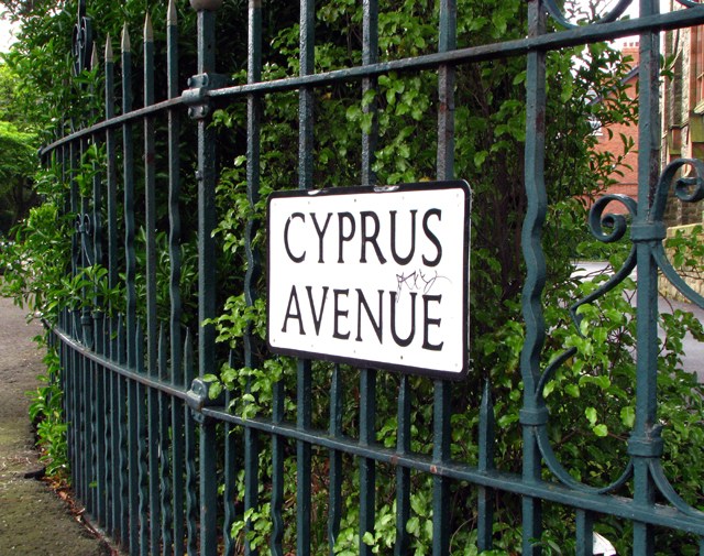 Caught one more time........ ......up on Cyprus Avenue © Van Morrison. Street sign of the delightful Cyprus Avenue (see 876848) in east Belfast, immortalised in Morrison's lyrics. and .